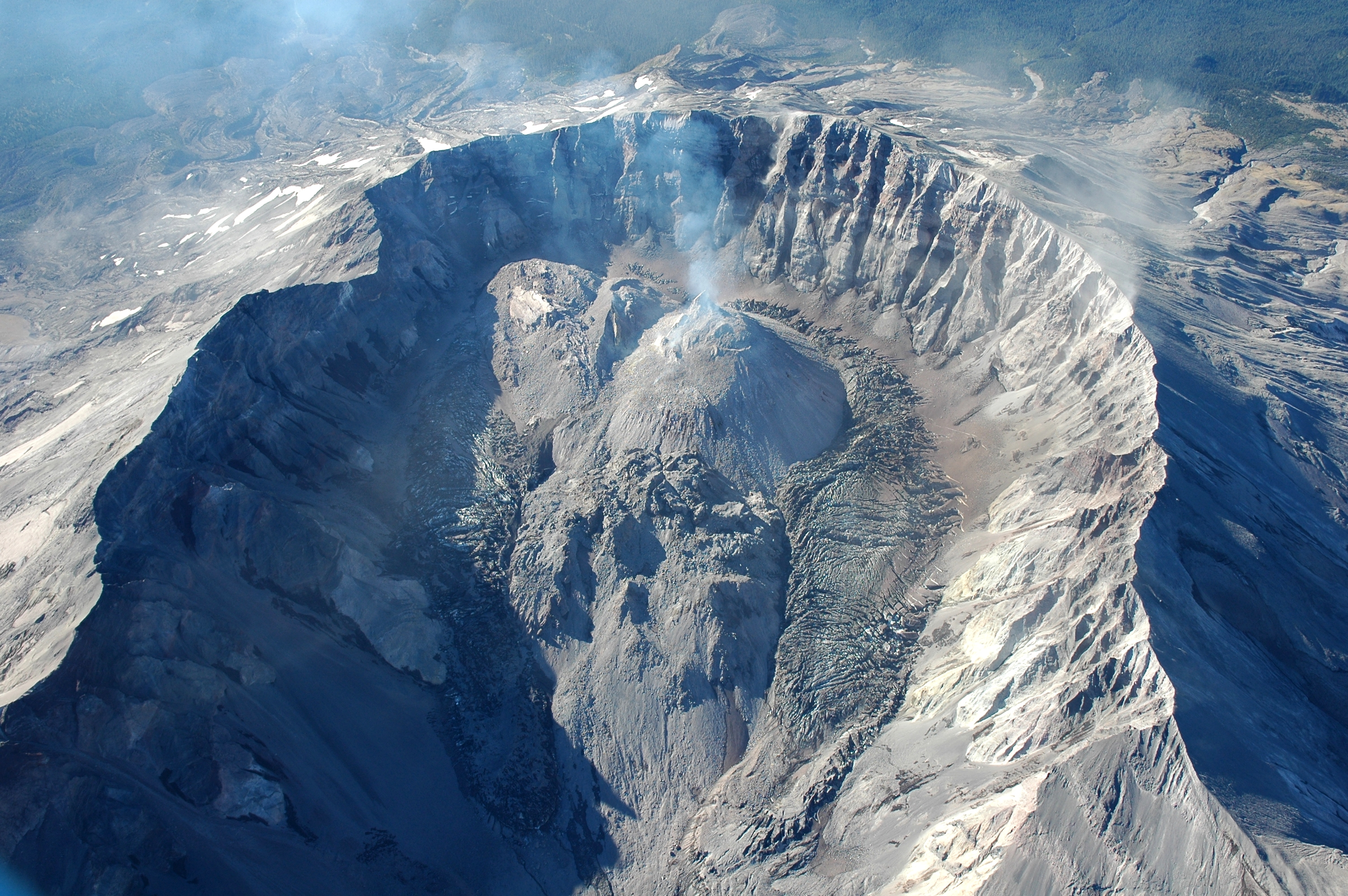 Mount St. Helens and Crater Glacier, Cascade Range, Washington, United States